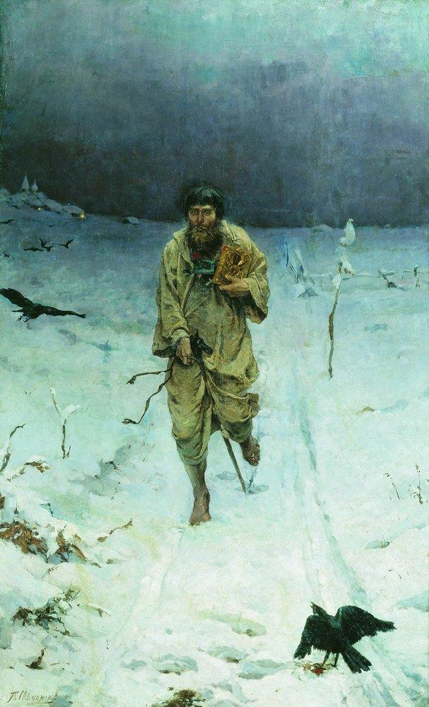 A God's Foollabel QS:Len,"A God's Fool"label QS:Lru,"Юродивый."